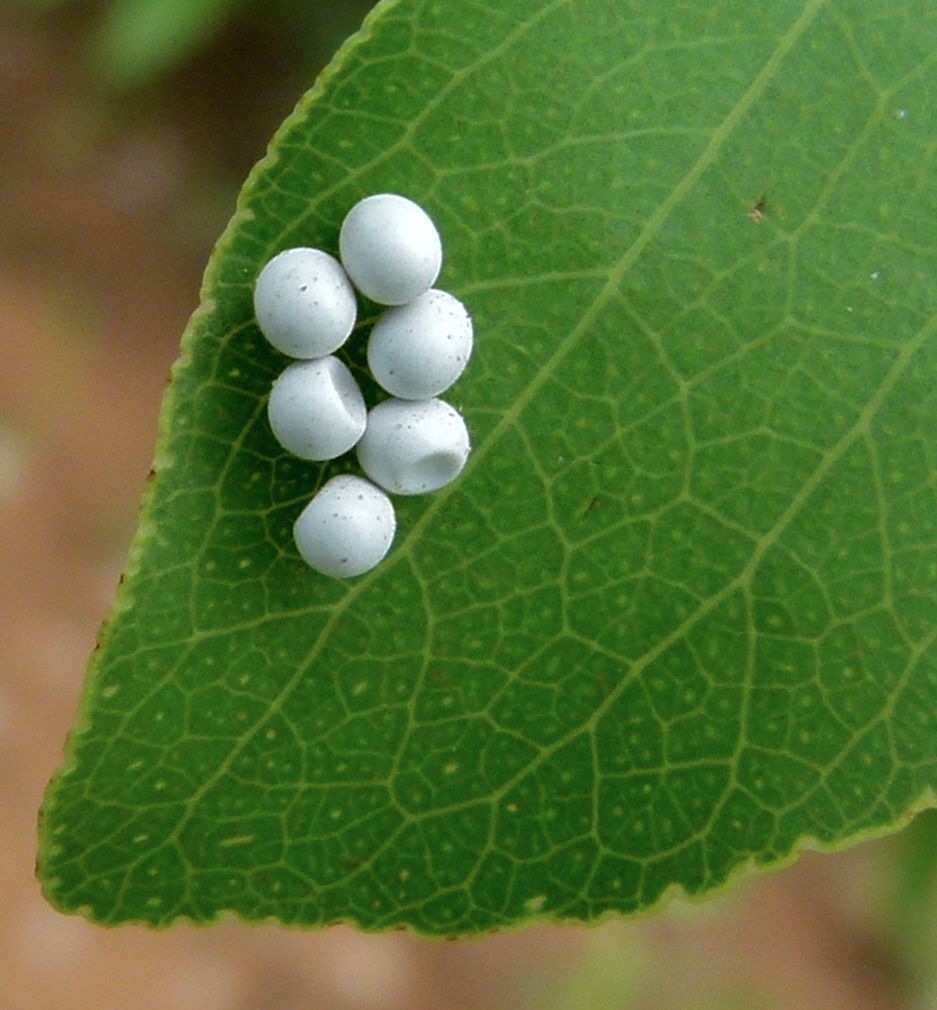 S62 East of Letaba, Kruger NP, SOUTH AFRICA